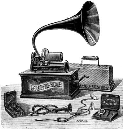 A Columbia type AT Graphophone, shown in a 1901 catalog published by the Maison de la Bonne Presse. Price: 110 Fr.